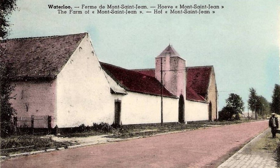 Mont Saint Jean Farm near the Waterloo site (Braine l'Alleud) Belgium. Southern sighting angle (toward Genappe). Notice the tramway rails (once on the orther side)